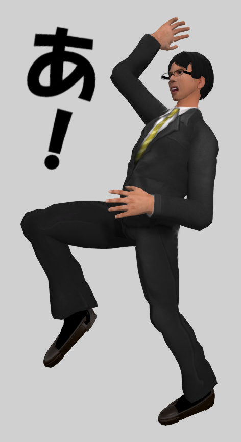 A comical gesture of Japanese comedian Iwai Jonio